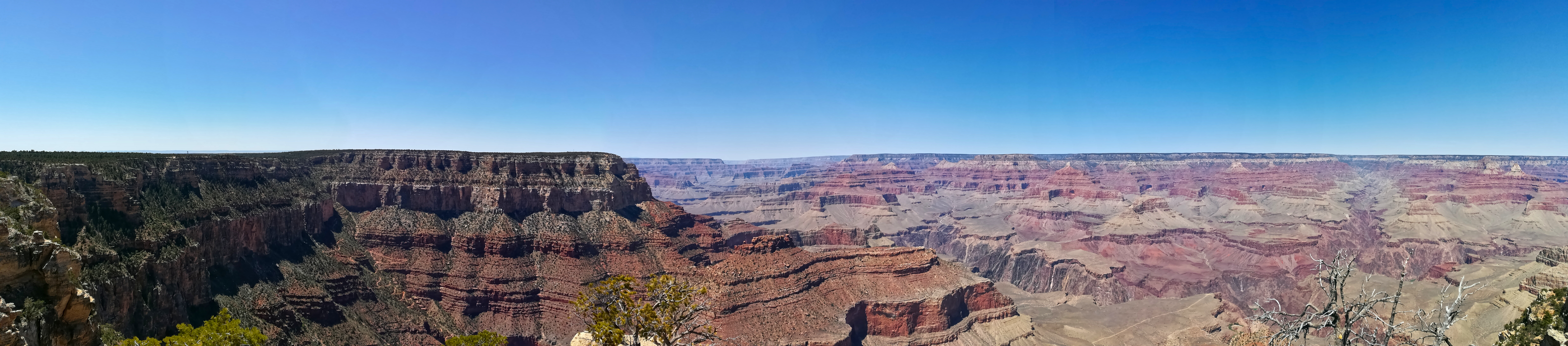 Grand Canyon South Rim Trail